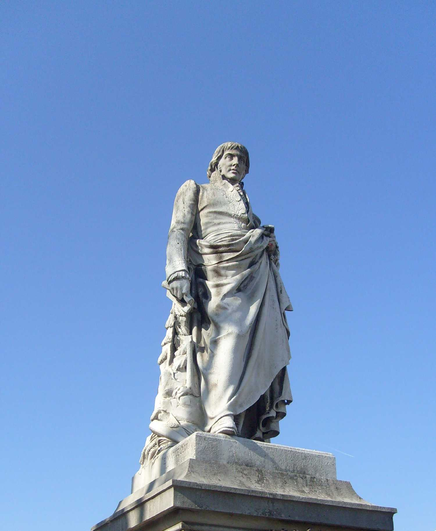 Ladoucette's statue, former prefet of the Hautes-Alpes( France), in Gap made by Jean Marcellin, sculptor from Gap.